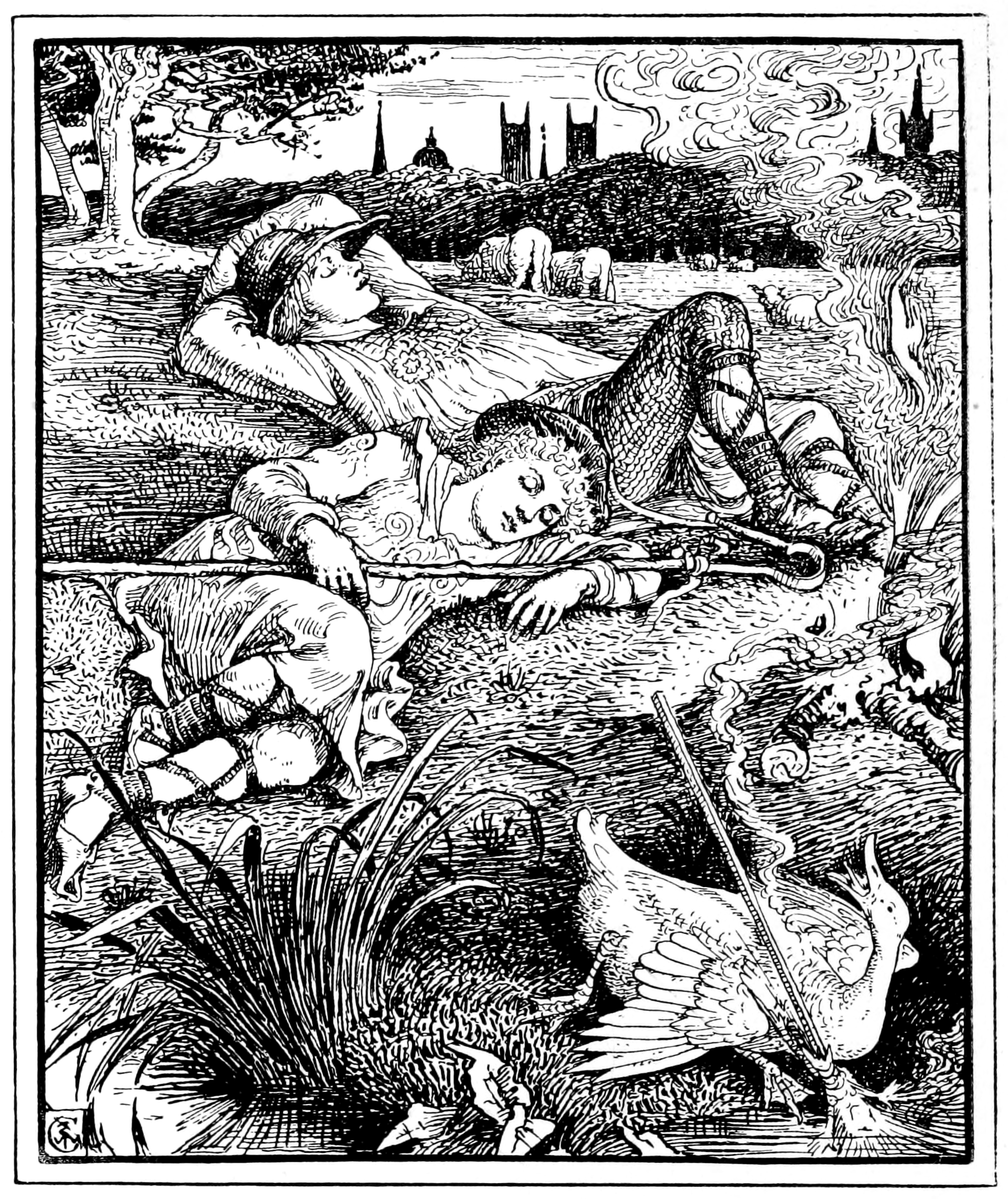 plate illustrating a story "The Remarkable Rocket" in Wilde's The Happy Prince and Other Tales. London: Nutt. 1st ed. Conversion: jp2 to png; greyscale; black and white point levels.